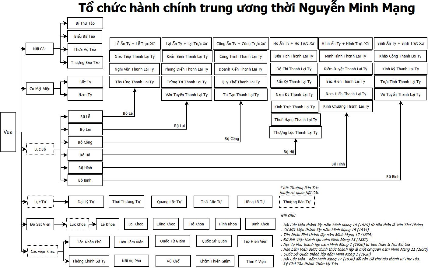 Tổ chức hành chính địa phương dưới triều Nguyễn Thánh Tổ.